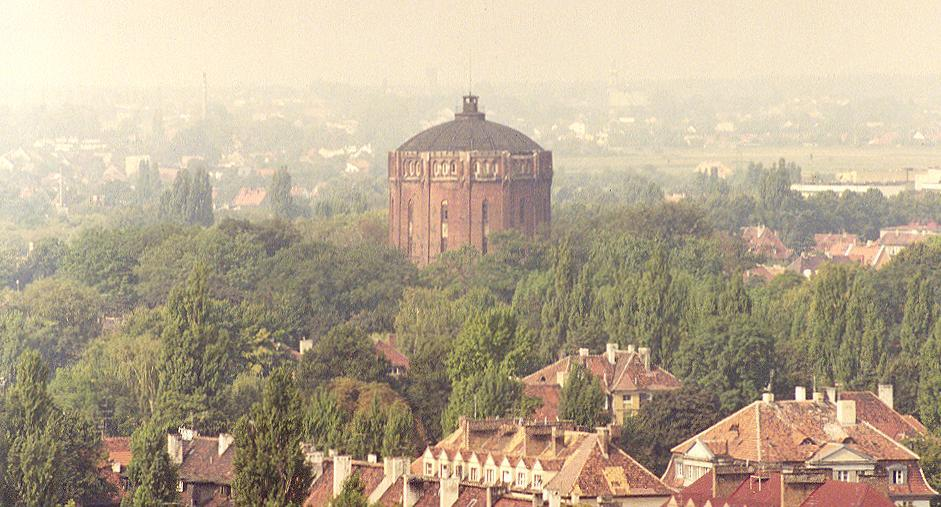 Water tower in Gliwice